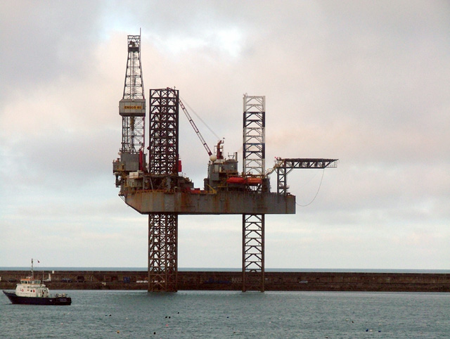 Holyhead breakwater with drilling rig. The photo was taken near to the maritime museum with ensco 85 drilling rig sheltering inside the harbour. The rig works in depths up to 225 feet and can drill to 25000 ft